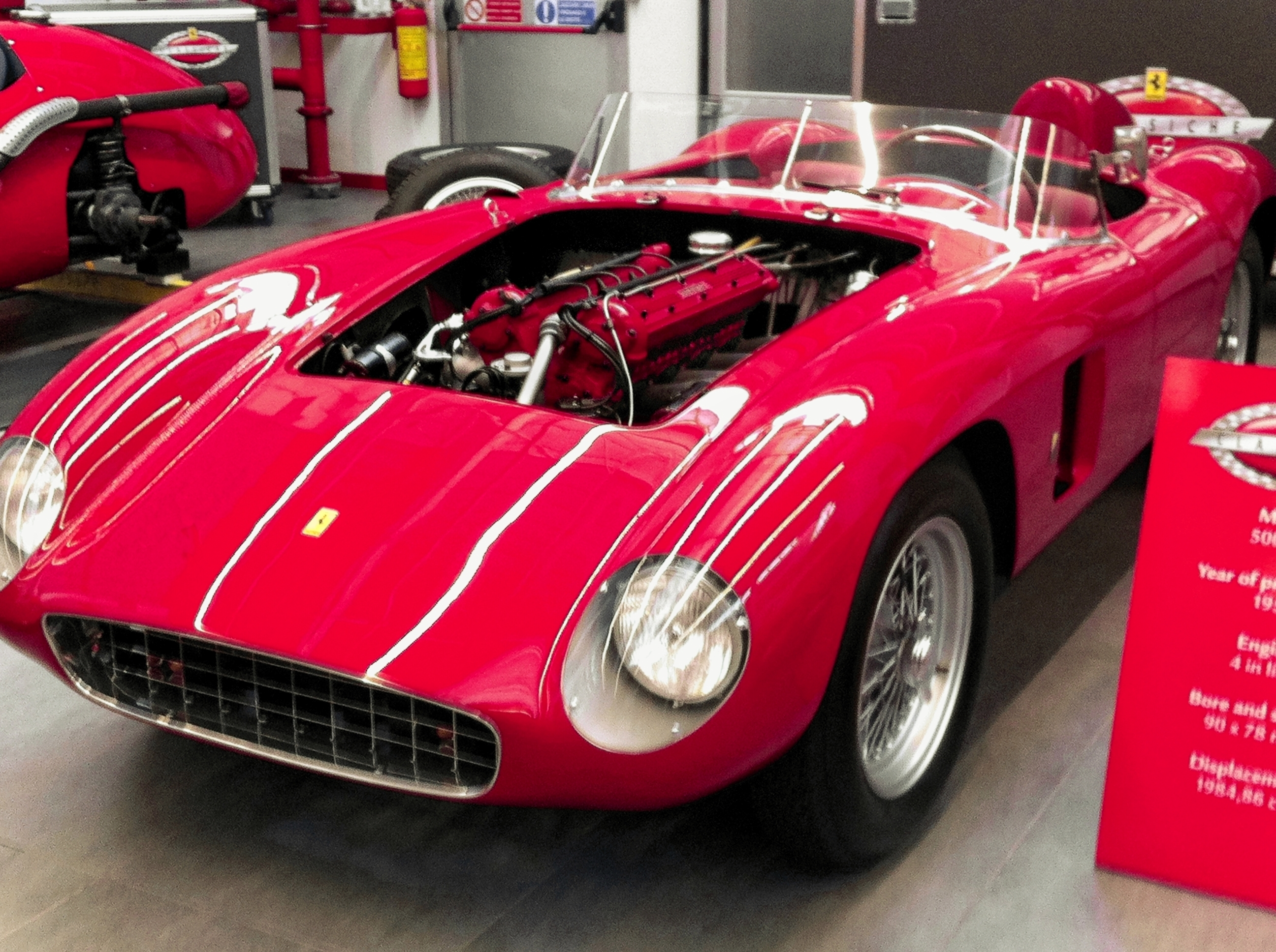 1957 Ferrari 500 TRC, exposed at FamilyDay 2013 in Ferrari Factory, Maranello (MO), Italy, in 15 June 2013.